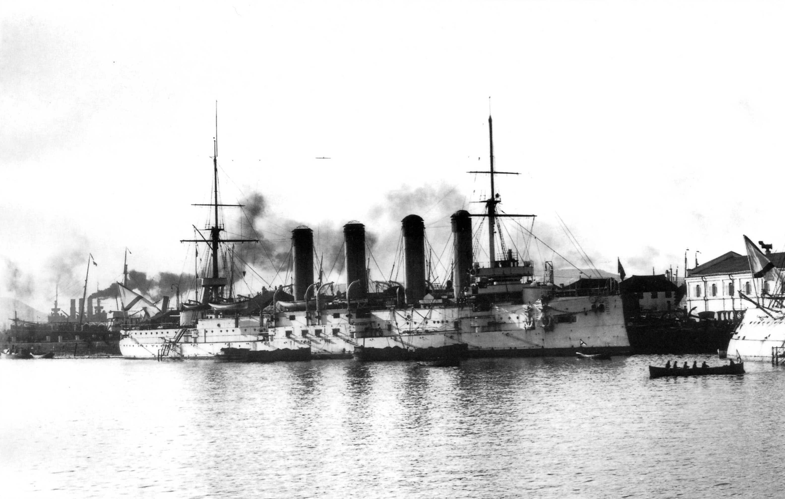 Imperial Russian armoured cruiser Bayan at Port Arthur at the end of November 1904 year.Note: in my opinion it is December 1903, before the war, because the ship seems to wear white peacetime camouflage, and there is a battleship Tsesarvich on the right. Pibwl (talk) 10:56, 17 December 2012 (UTC)